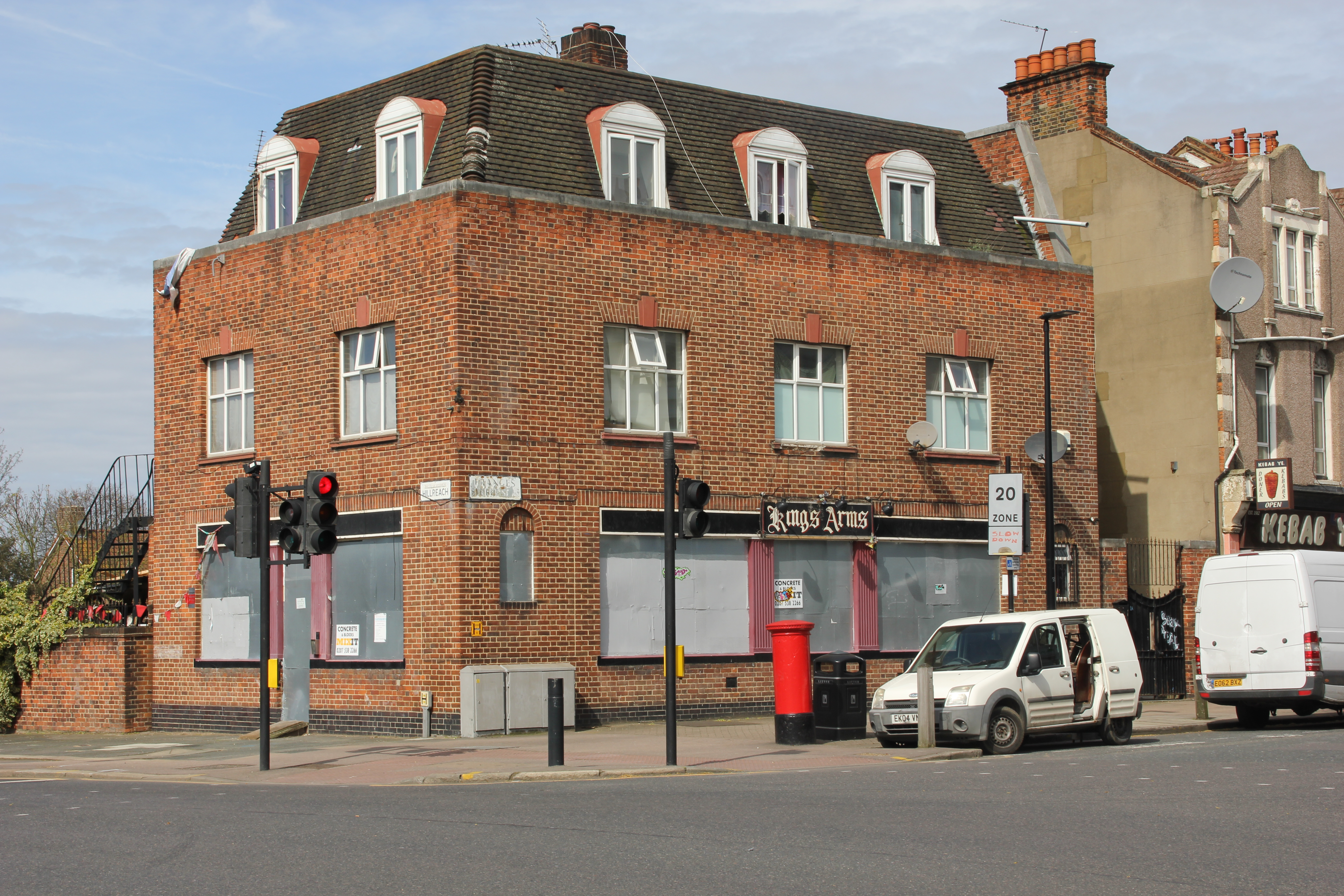 Kings Arms pub (now - 2018 - closed) in Woolwich, photographed from south east